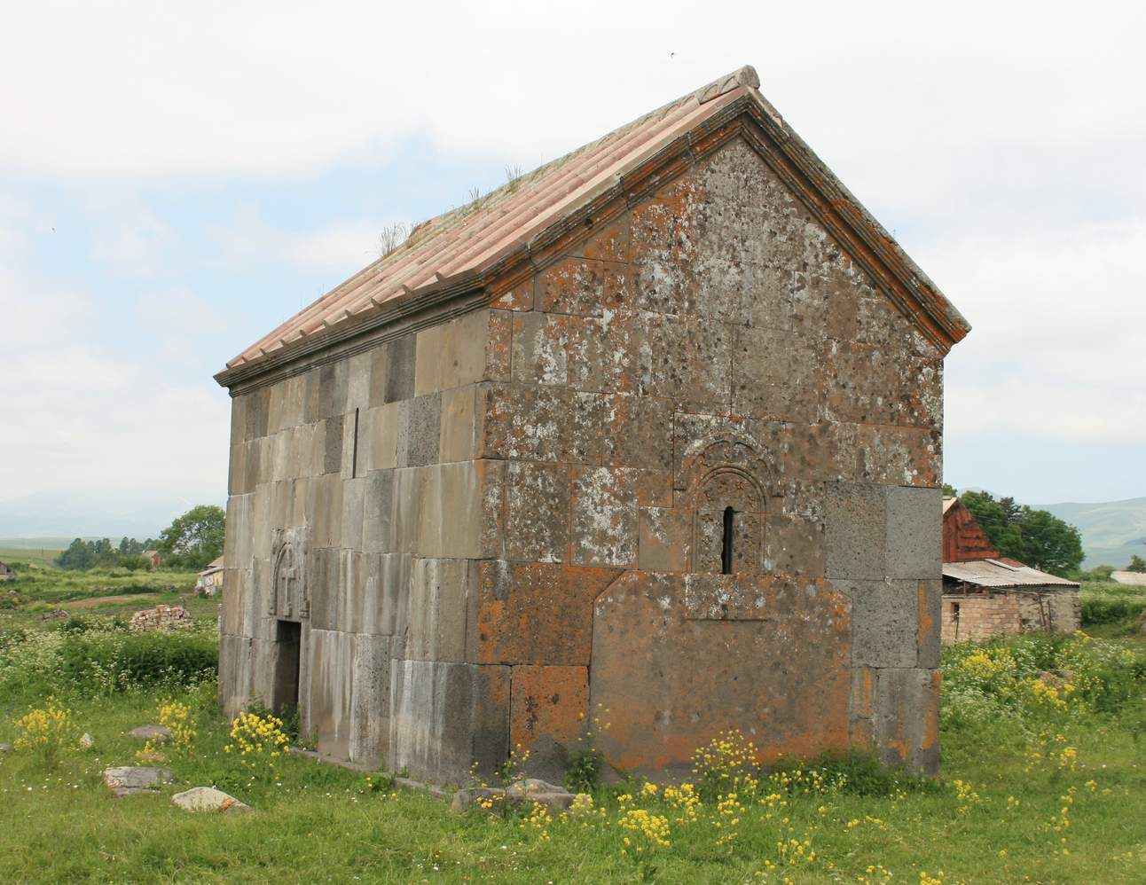 Church in Arjevan-Sarvani, Georgia